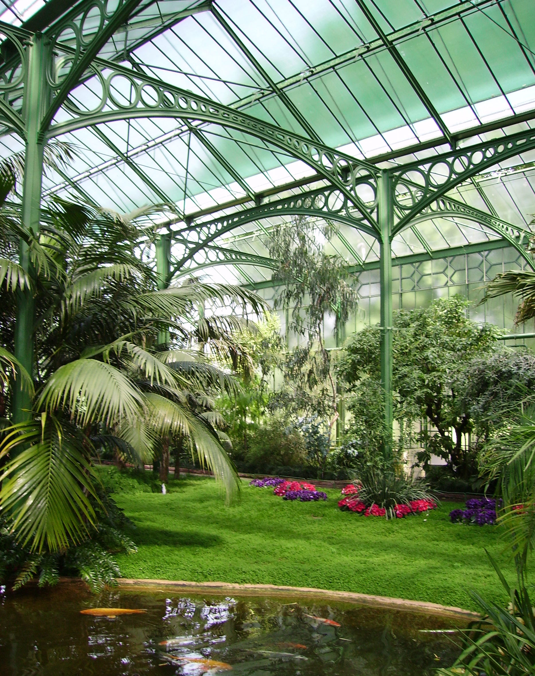 zoological garden and botanical garden Wilhelma in Stuttgart, Germany